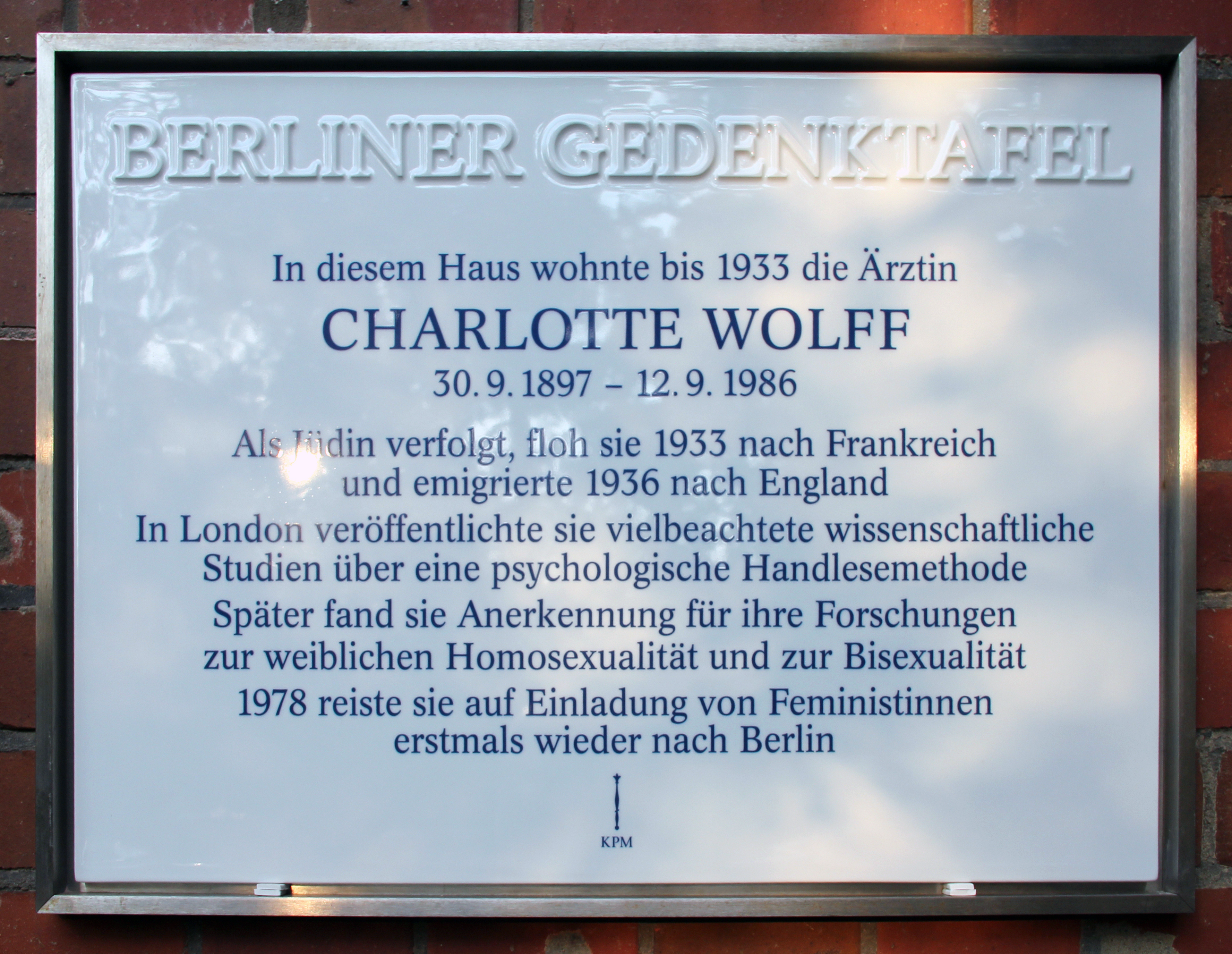 Berlin memorial plaque, Charlotte Wolff, Laubenheimer Straße 10, Berlin-Wilmersdorf, Germany